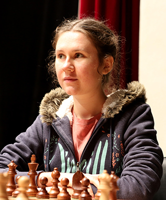 Polina Shuvalova at Superfinal of the Russian Chess Championship, Satka, 2018